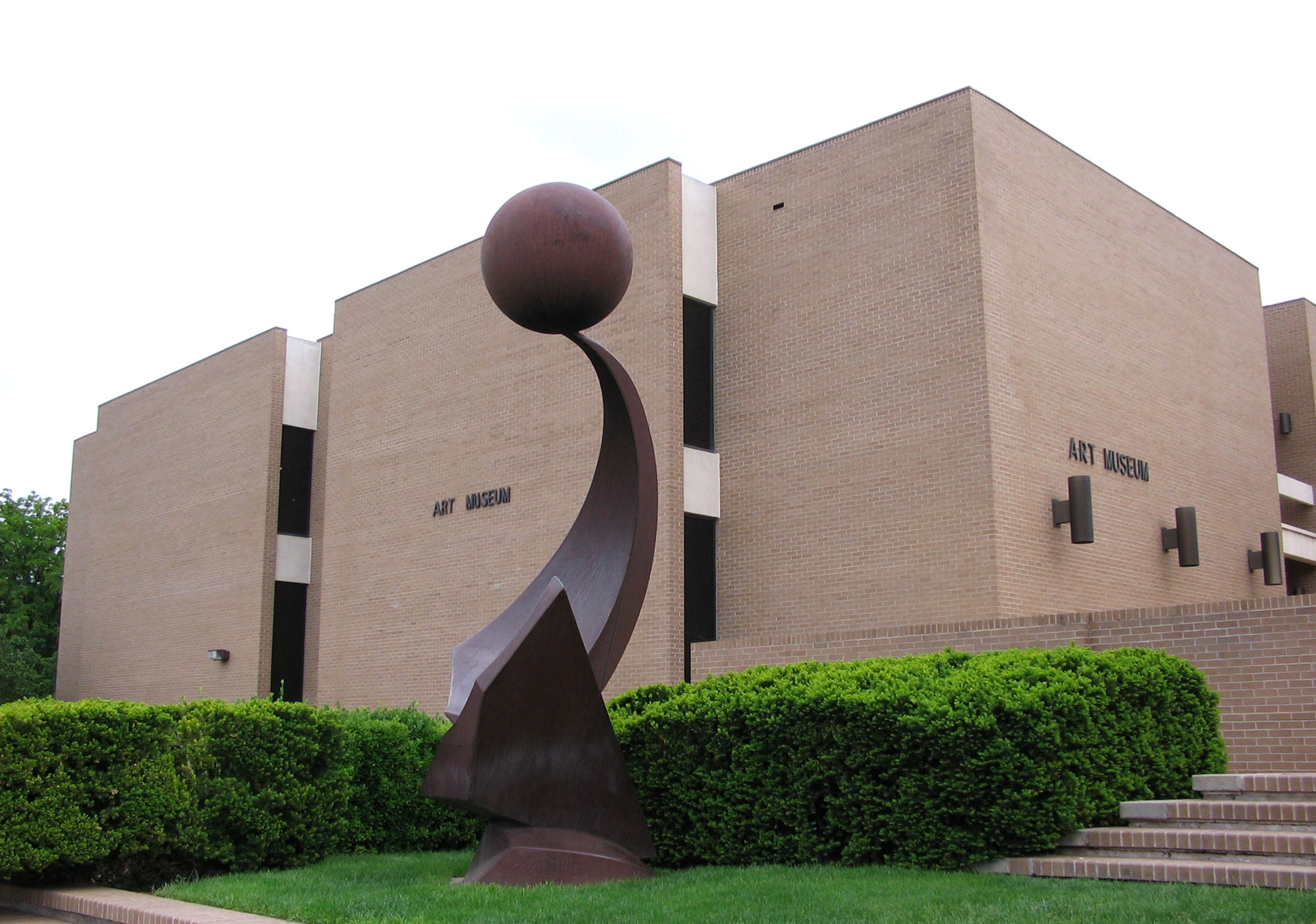 The Amarillo Museum of Art building in Amarillo, Texas, U.S.A.